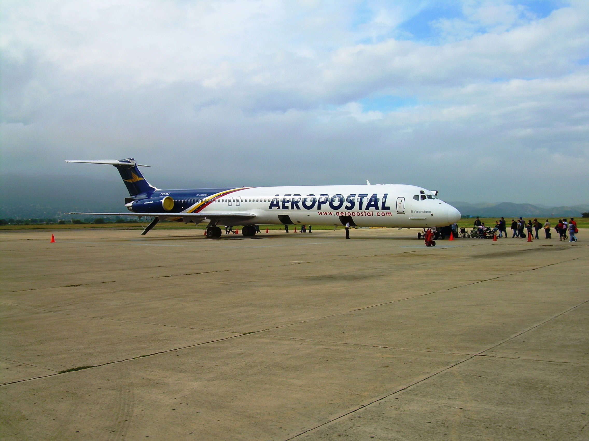 Aeropostal McDonnell-Douglas MD-82, registration number YV445T, named "El Valenciano", parked at Jacinto Lara International Airport, in Barquisimeto, Venezuela Ladino: McDonnell-Douglas MD-82 de Aeropostal, koddiche YV445T, "El Valenciano", enel Ayroporto Internasional "Jacinto Lara", ke se topa en la sivdad de Barkisimeto, Venezuela